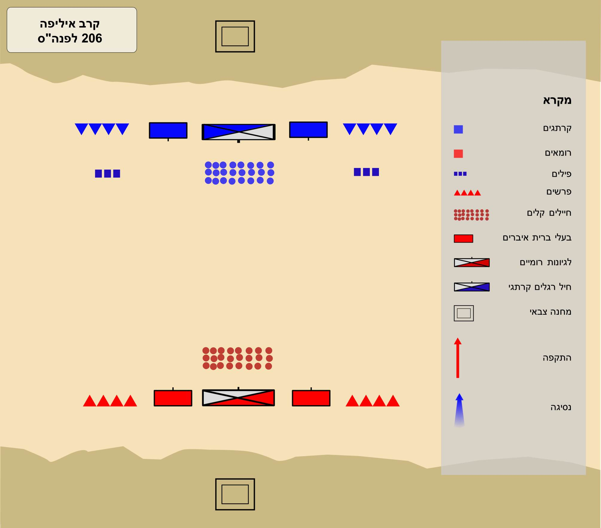 Change of the Roman battle formation by Scipio and his attack on the Carthaginian flanks. Data for this map were retrieved from a map in the book "The Fall of Carthage" written by Adrian Goldsworthy, and translated to hebrew in this version.